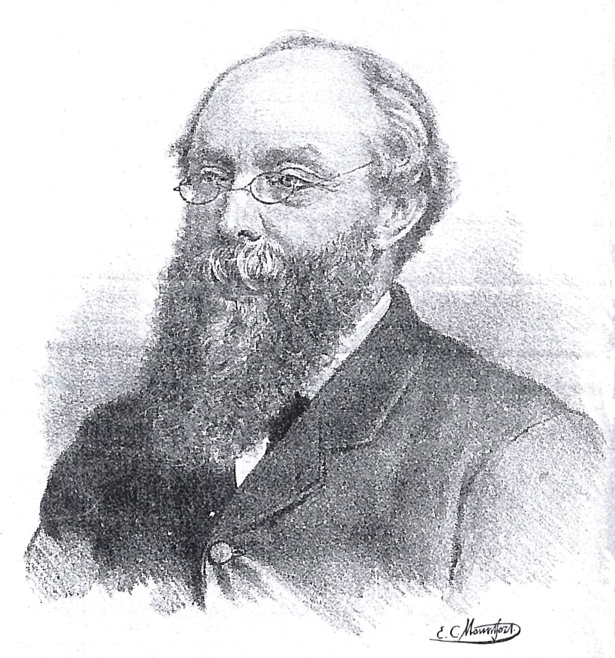 Engraved portrait of William Harris (1826 – 25 March 1911) of Birmingham, Liberal politician and strategist, and architect and surveyor. Signed by E. C. Mountfort. Published in Edgbastonia, 1889.